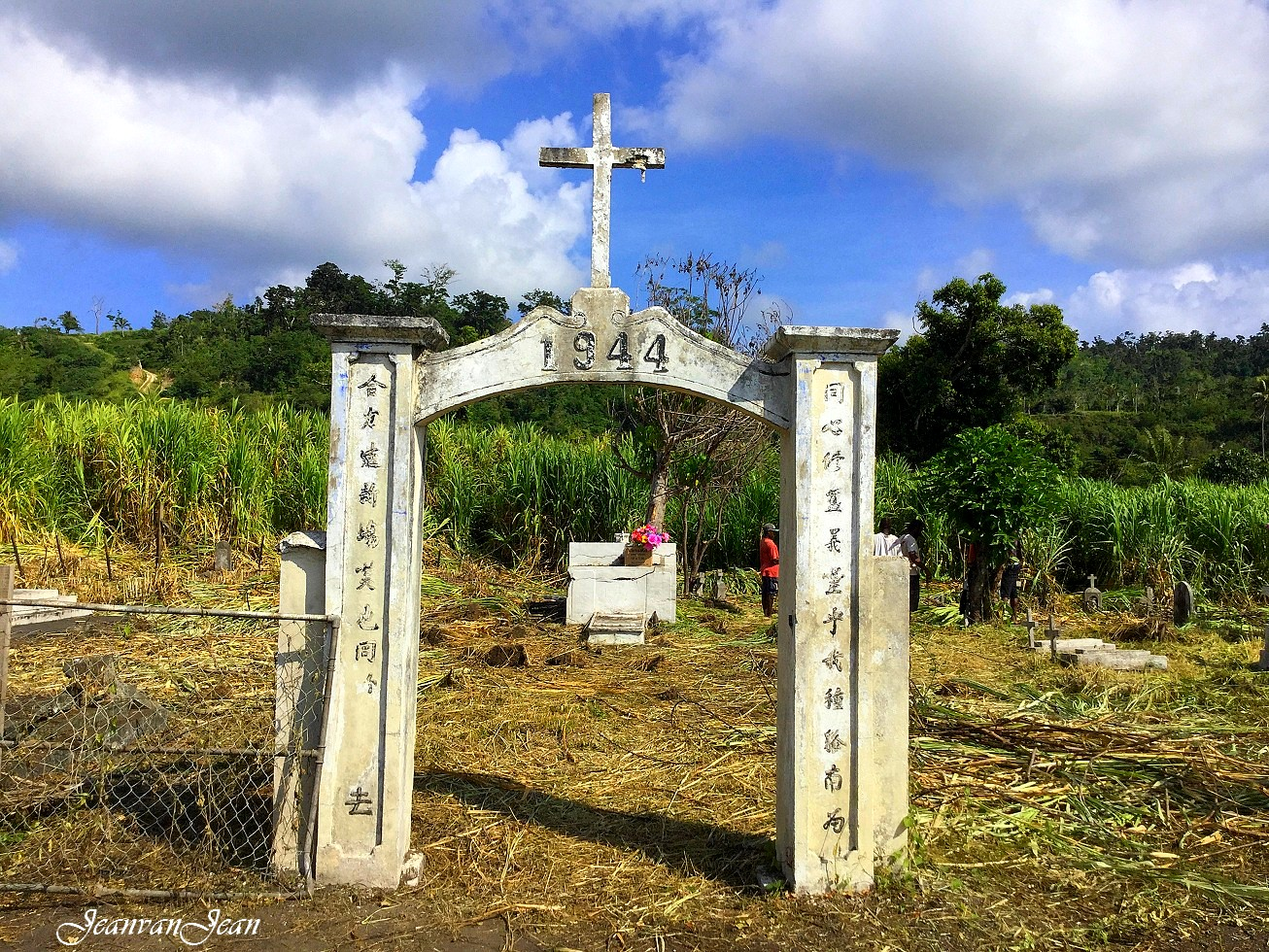 Efate Island - The old vietnamese cimetery